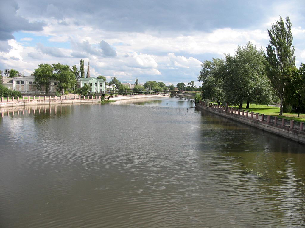 Inhul River in Kirovohrad